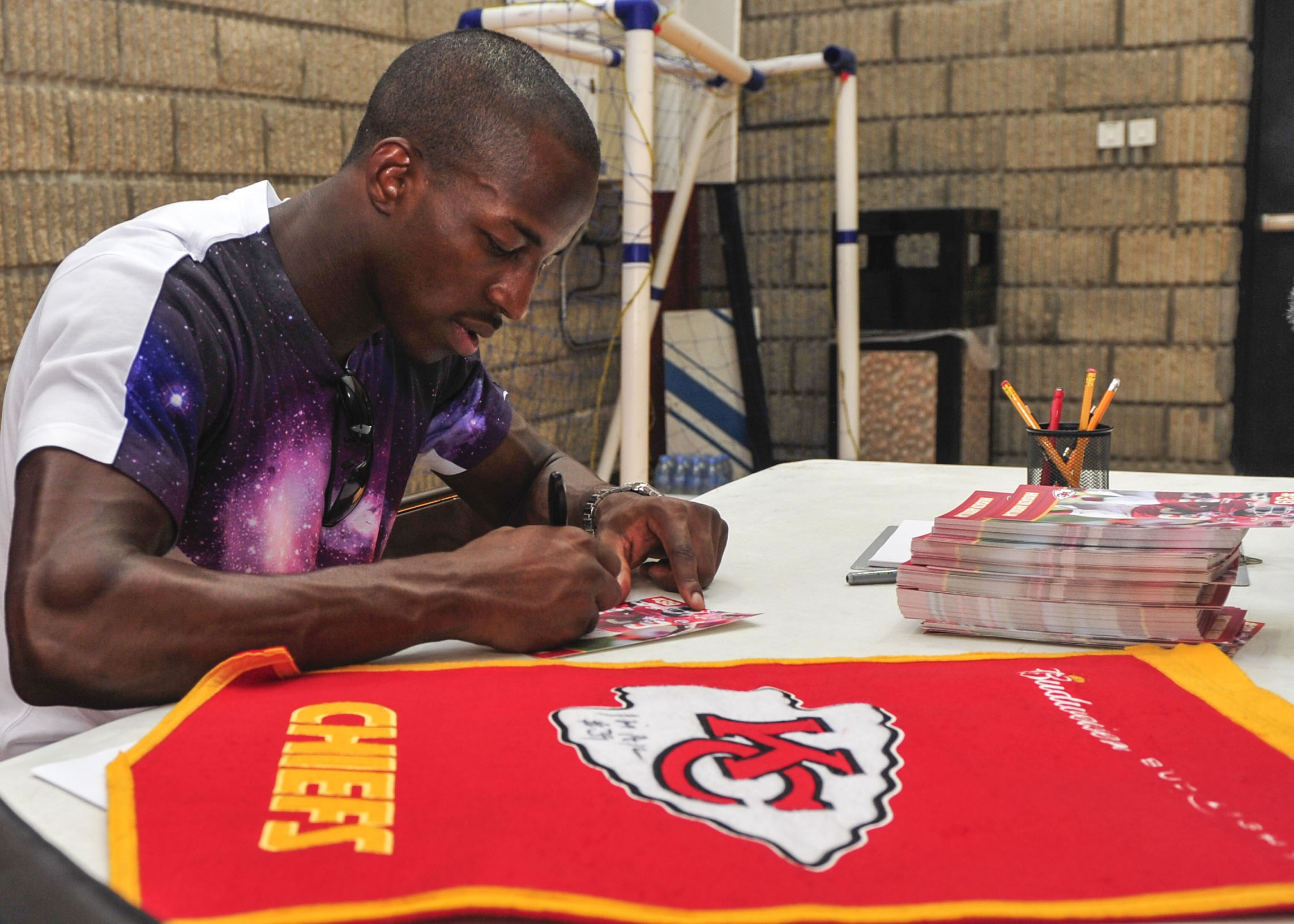 National Football League player Husain Abdullah signs autographs for Service members during a visit to Al Udeid Air Base, Qatar, July 7, 2014. Abdullah also received a hands-on tour of AUAB as part of his visit and saw how military installations operate. Abdullah is a professional football player with the Kansas City Chiefs, where he plays cornerback.